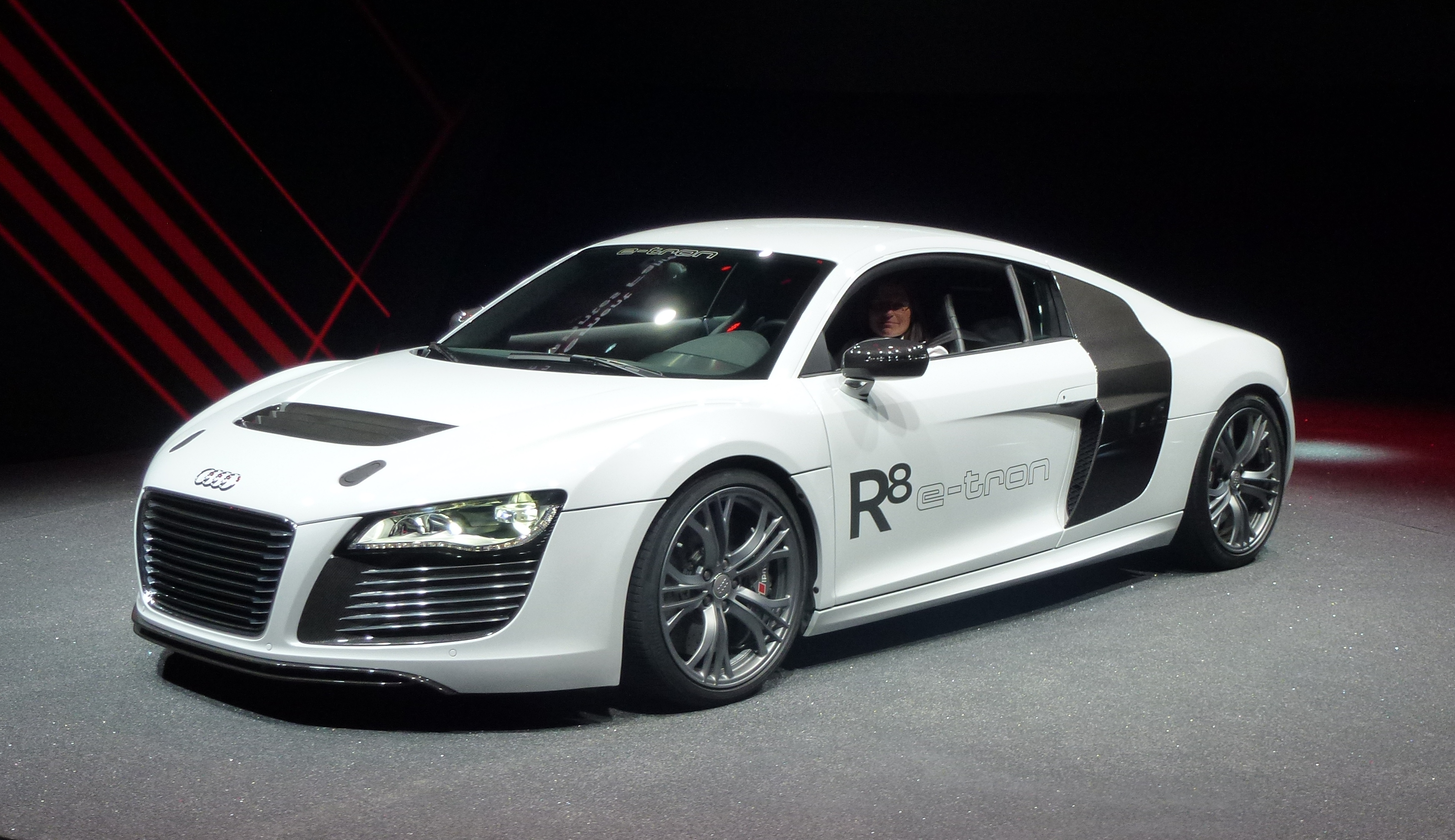 Audi R8 e-tron at the IAA auto-show in Frankfurt, Germany